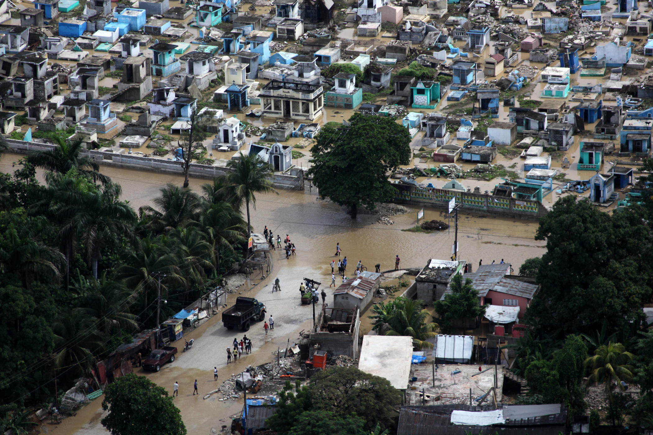 Haitian citizens walk through the flooded streets of Port-au-Prince, Haiti, Nov. 6, after Hurricane Tomas hit the country. Marines with Marine Medium Helicopter Squadron 774 flew CH-46E Sea Knight helicopters over Haitian soil to assess the aftermath of the hurricane in preparation for tentative disaster relief efforts to the region in support of the government of Haiti, MINUSTAH and USAID. Marines and sailors embarked aboard USS Iwo Jima attached to Special-Purpose Marine Air-Ground Task Force concluded humanitarian operations in Paramaribo, Suriname, Nov. 1, for Haiti relief efforts. Special-Purpose Marine Air-Ground Task Force Date Taken:11.06.2010 Location:PORT-AU-PRINCE, HT Related Photos